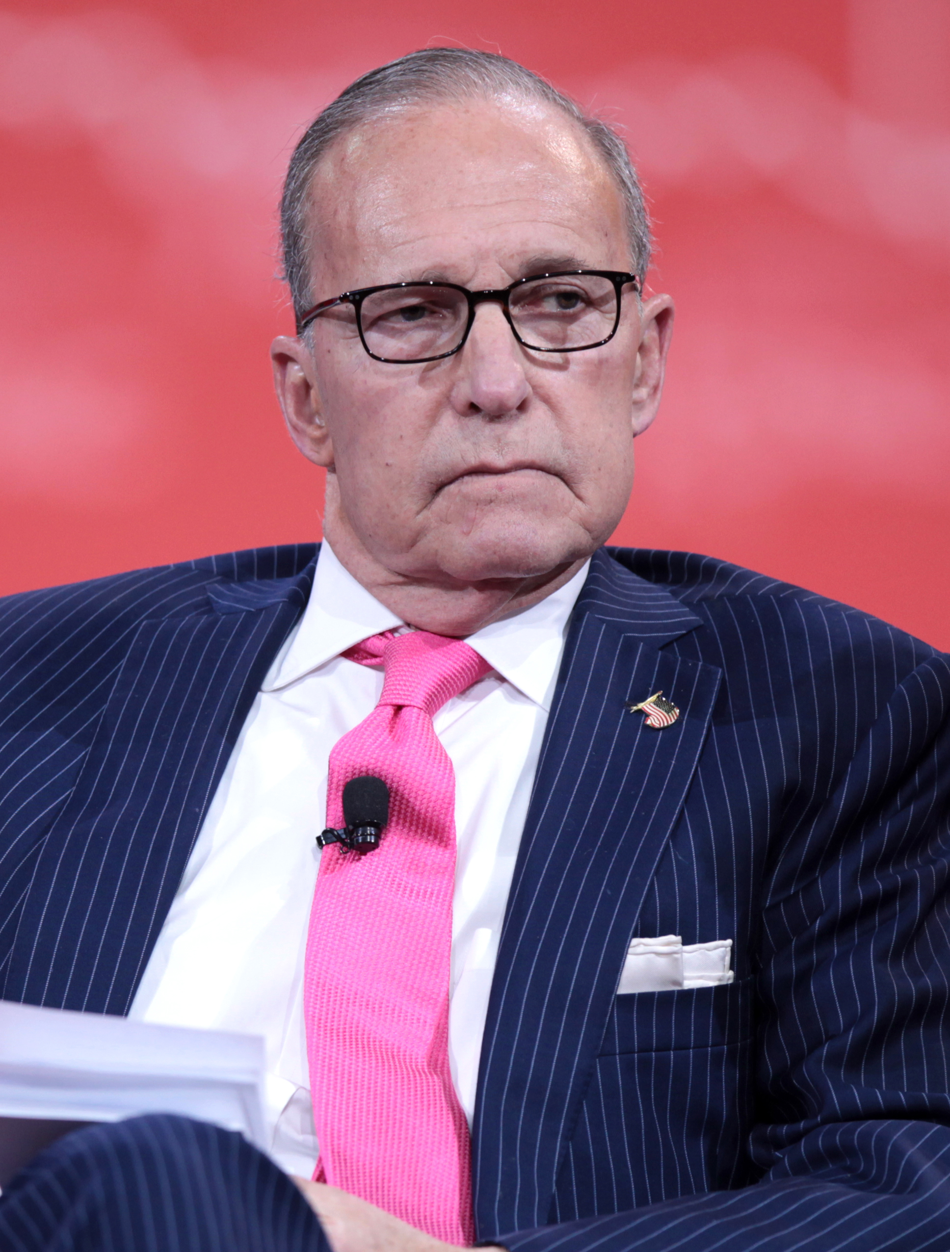 Larry Kudlow speaking at CPAC 2015 in Washington, DC.